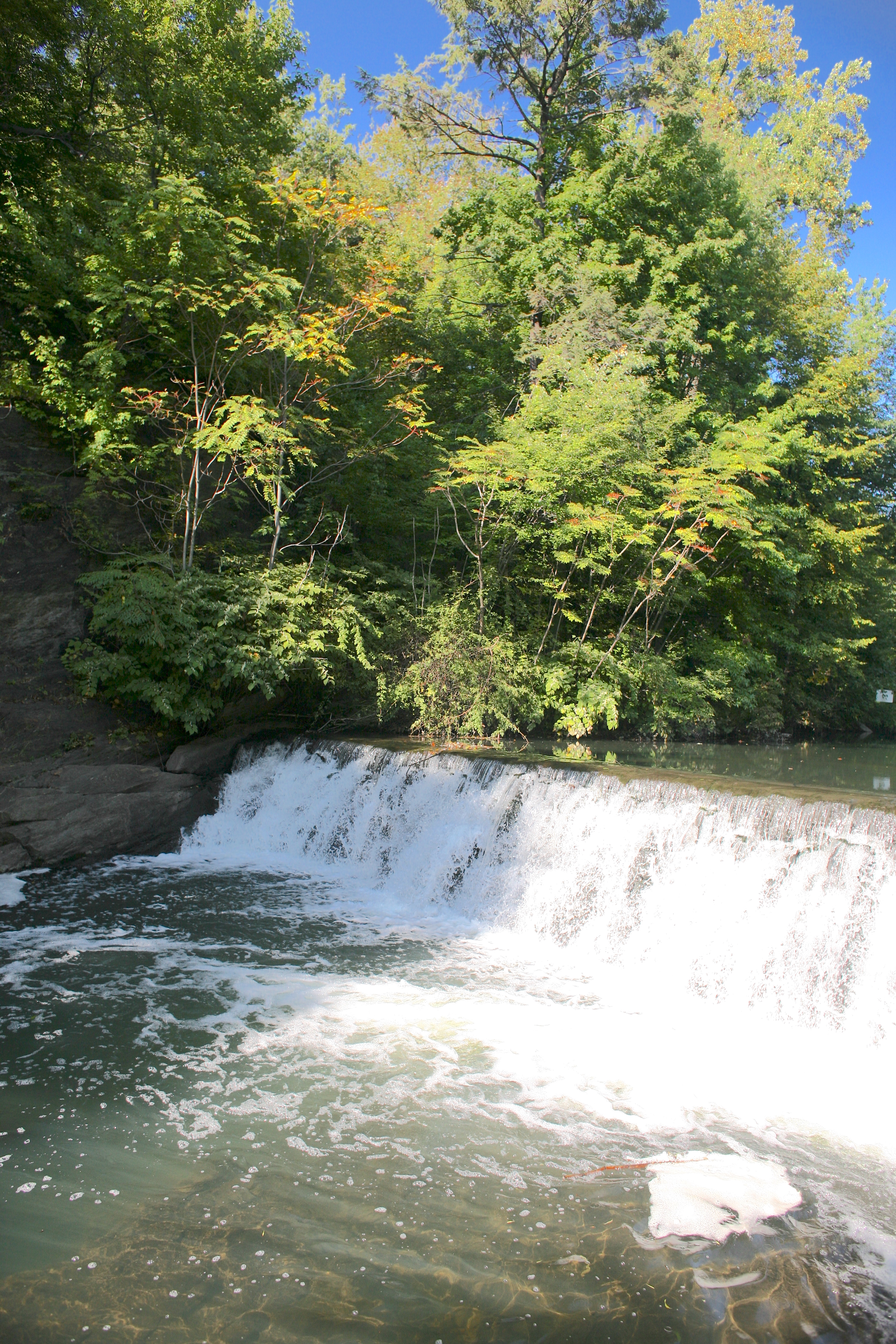 This photo is of Wikis Take Manhattan goal code N14, Bronx Park.